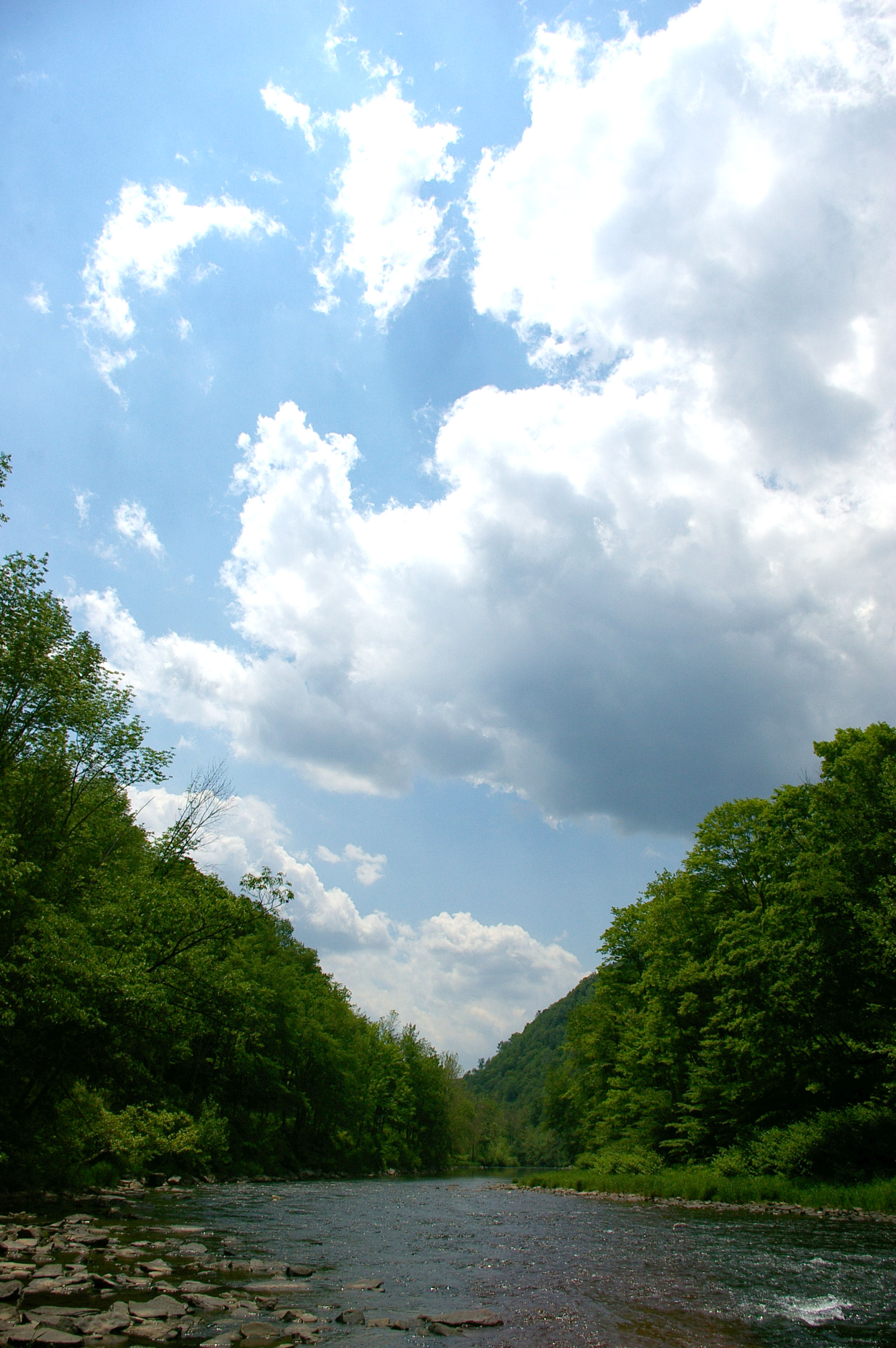 Pine Creek at the bottom of gorge at Leonard Harrison/Colton Point State Parks